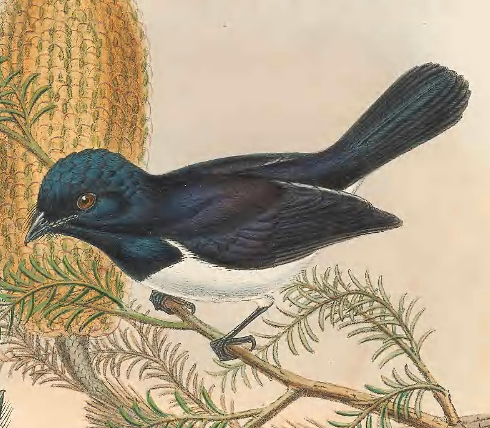 Myiagra ferrocyanea - The birds of New Guinea and the adjacent Papuan islands : including many new species recently discovered in Australia. v.2 (Plate 36).